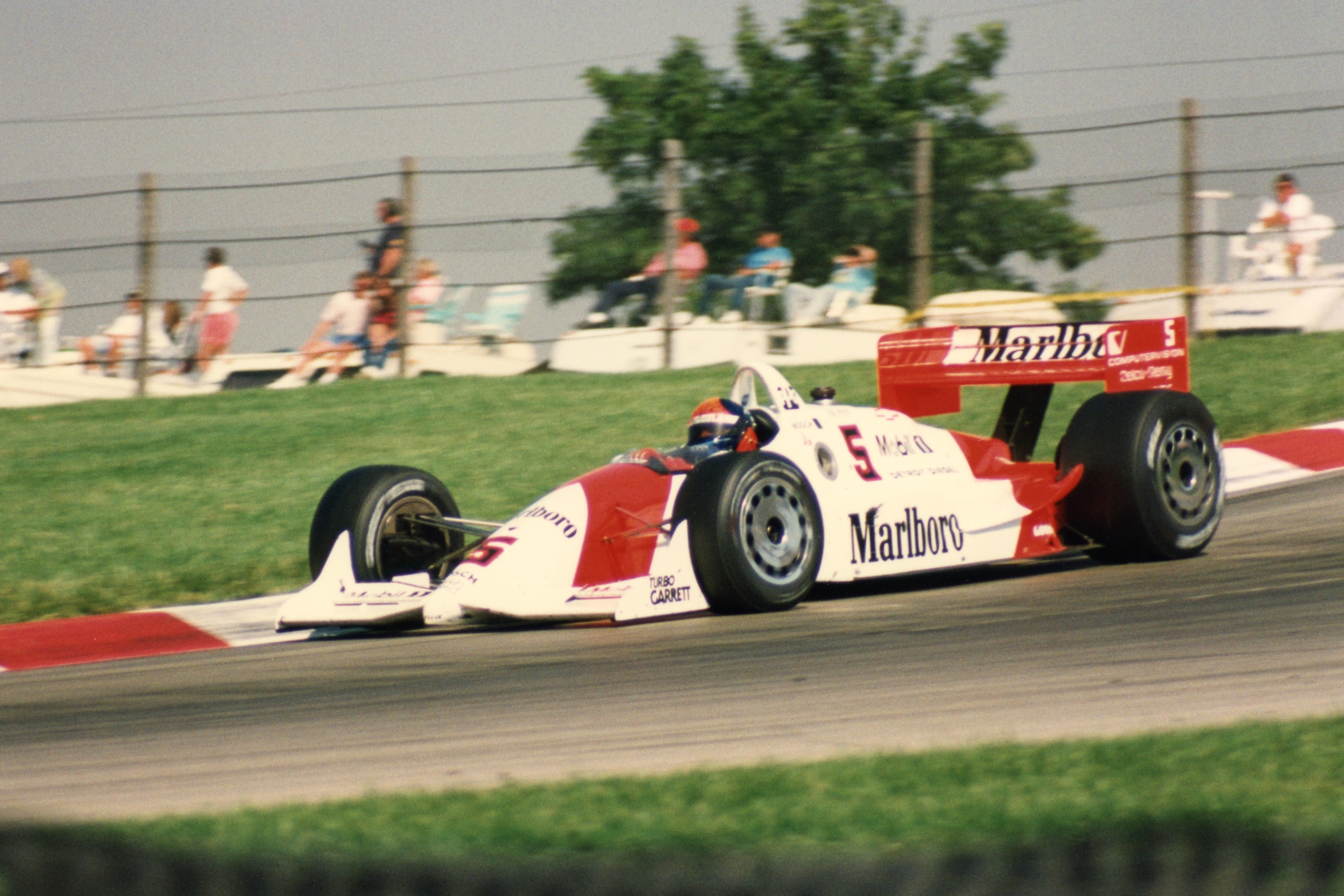 Emerson Fittipaldi driving for Penske Racing in the Miller 200 IndyCar race at Mid-Ohio Sports Car Course in Lexington, Ohio